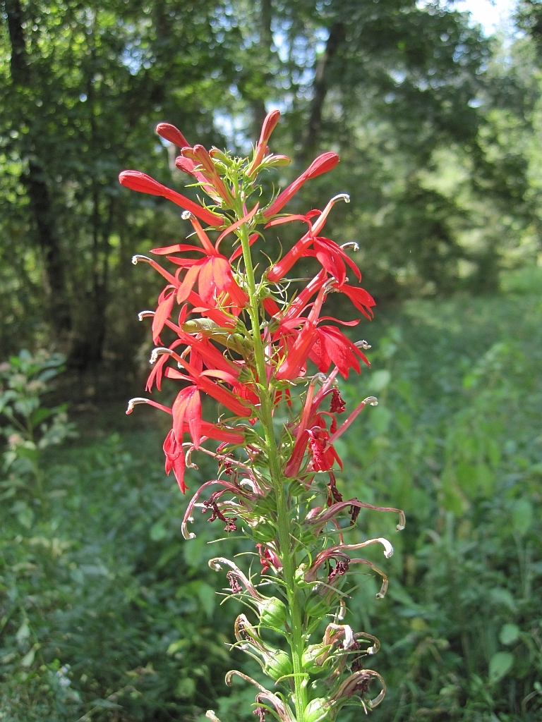 Hatchie National Wildlife Refuge, Haywood County, Tennessee